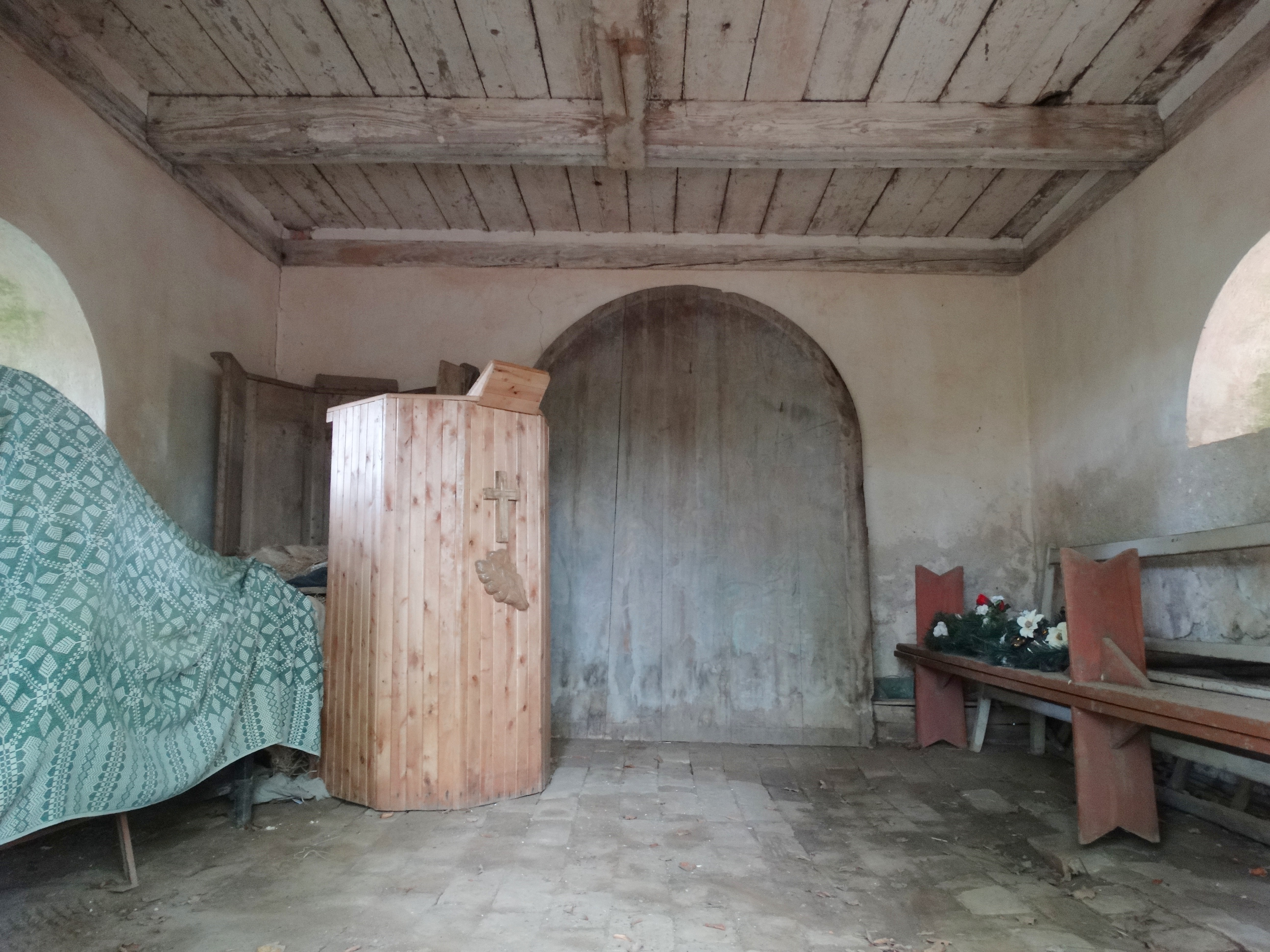 Evangelical Lutheran chapel, Žeimelis, Lithuania